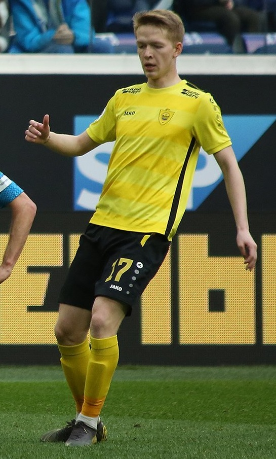 Ivan Ivanchenko with FC Anzhi Makhachkala in a game against FC Zenit Saint Petersburg.